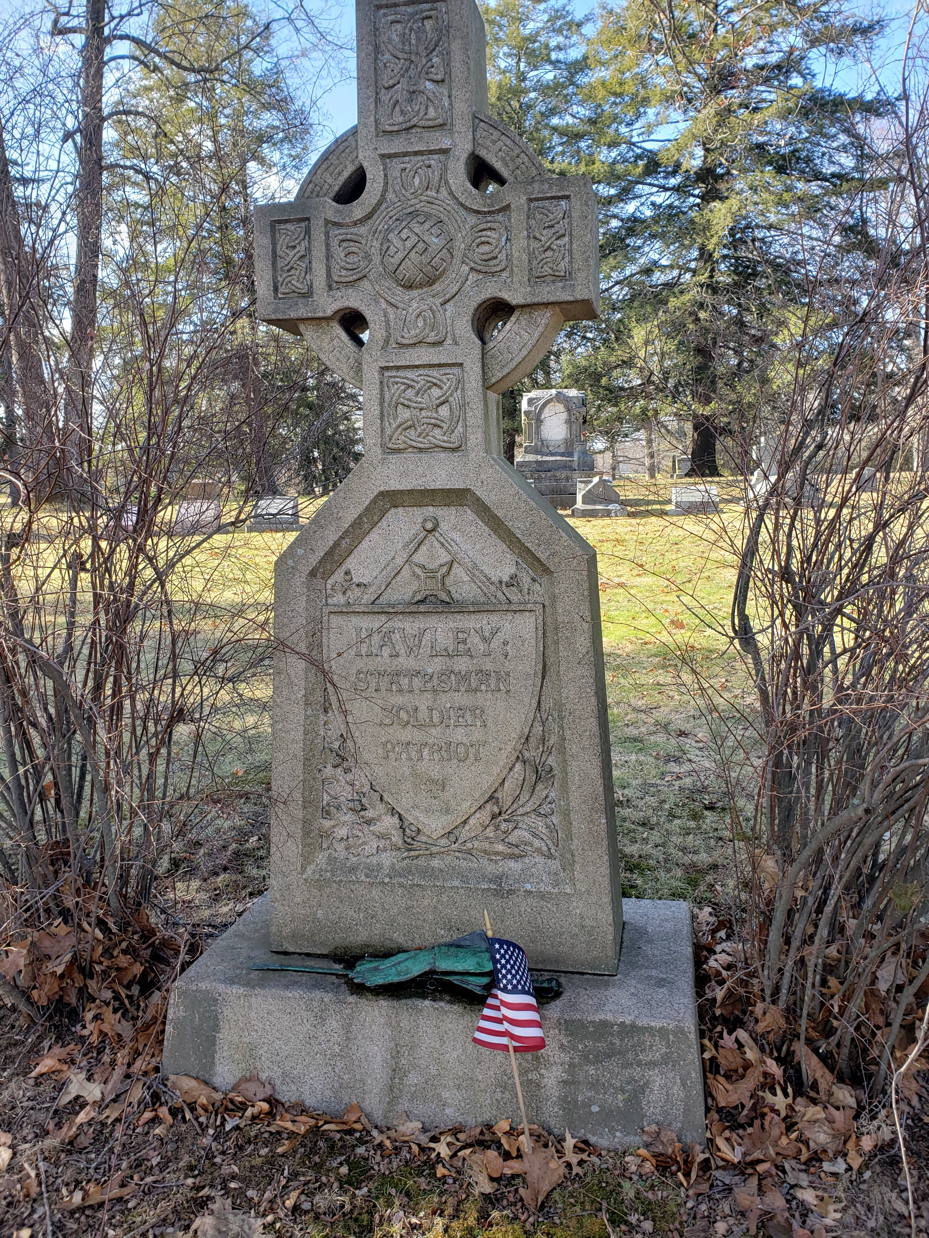 Joseph Roswell Hawley gravestone in Cedar Hill Cemetery in Hartford, Connecticut. Photo taken January 2020.